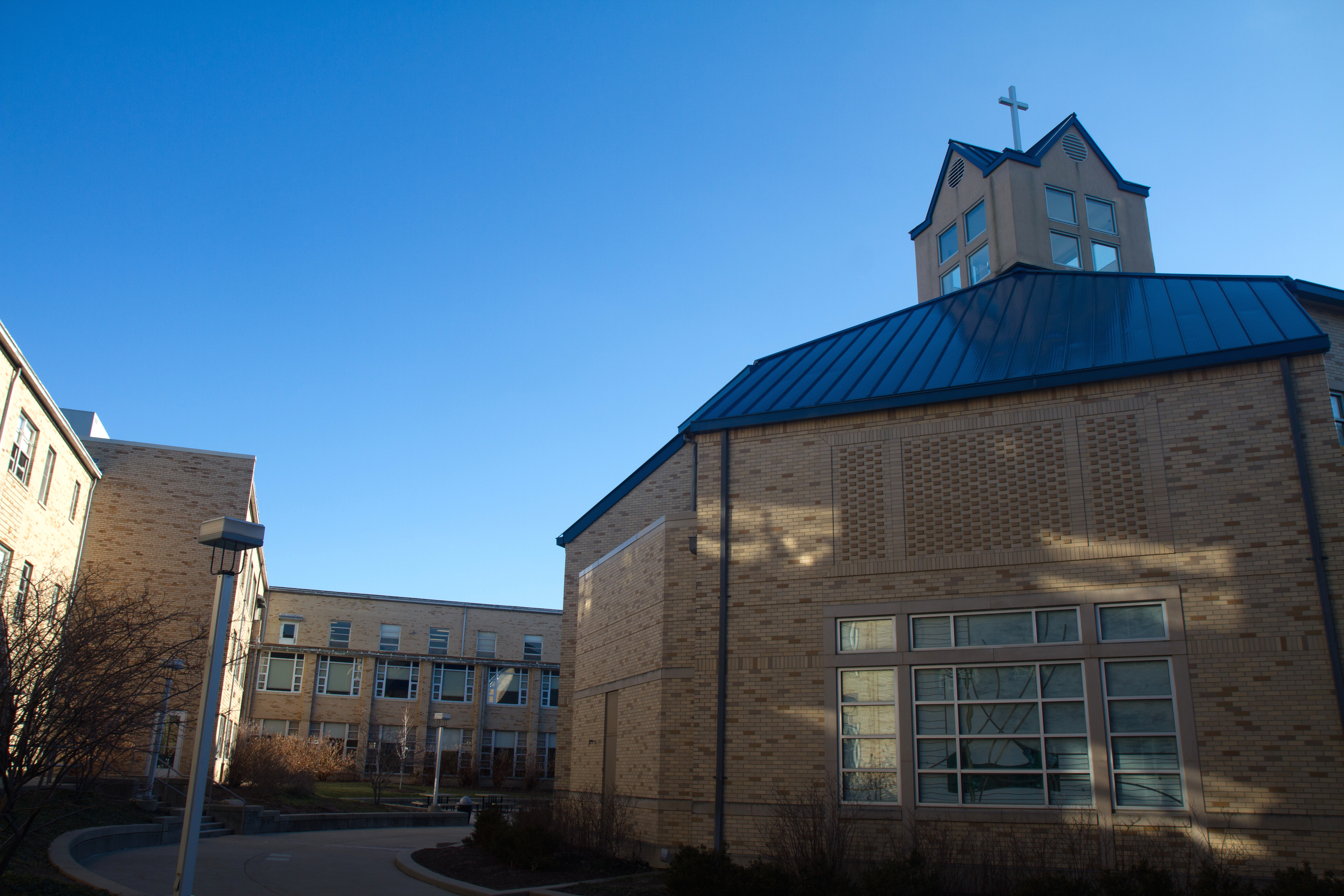 The exterior of Holy Companions Chapel on the grounds of St. Xavier High School in Cincinnati, Ohio, United States. The chapel was built in 1998 and named after the founding members of the Society of Jesus. To the left of the courtyard is the religion and counseling wing. Just beyond the courtyard are the cafeteria and administrative offices.